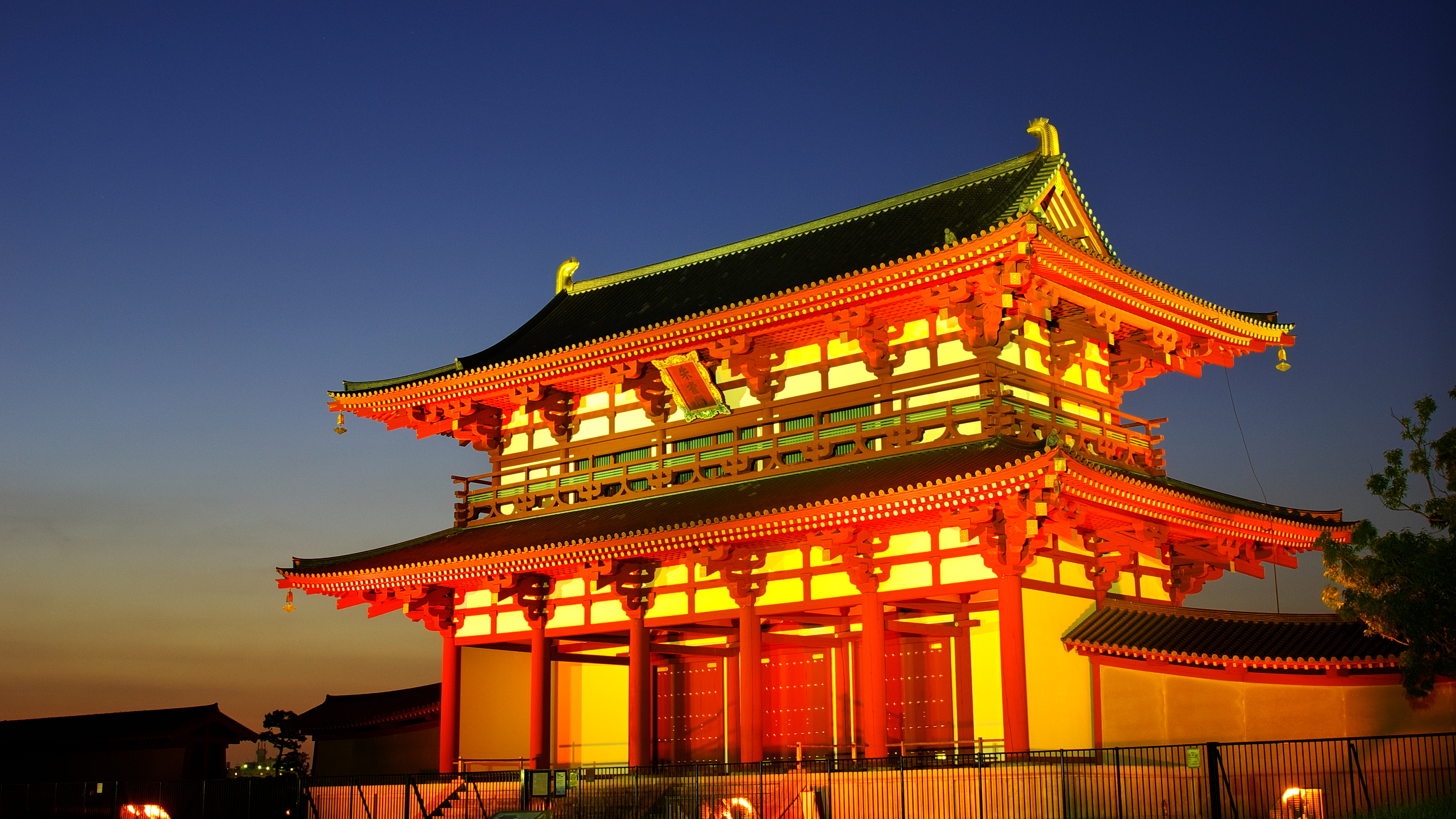 Suzakumon of Heijo Palace at twilight